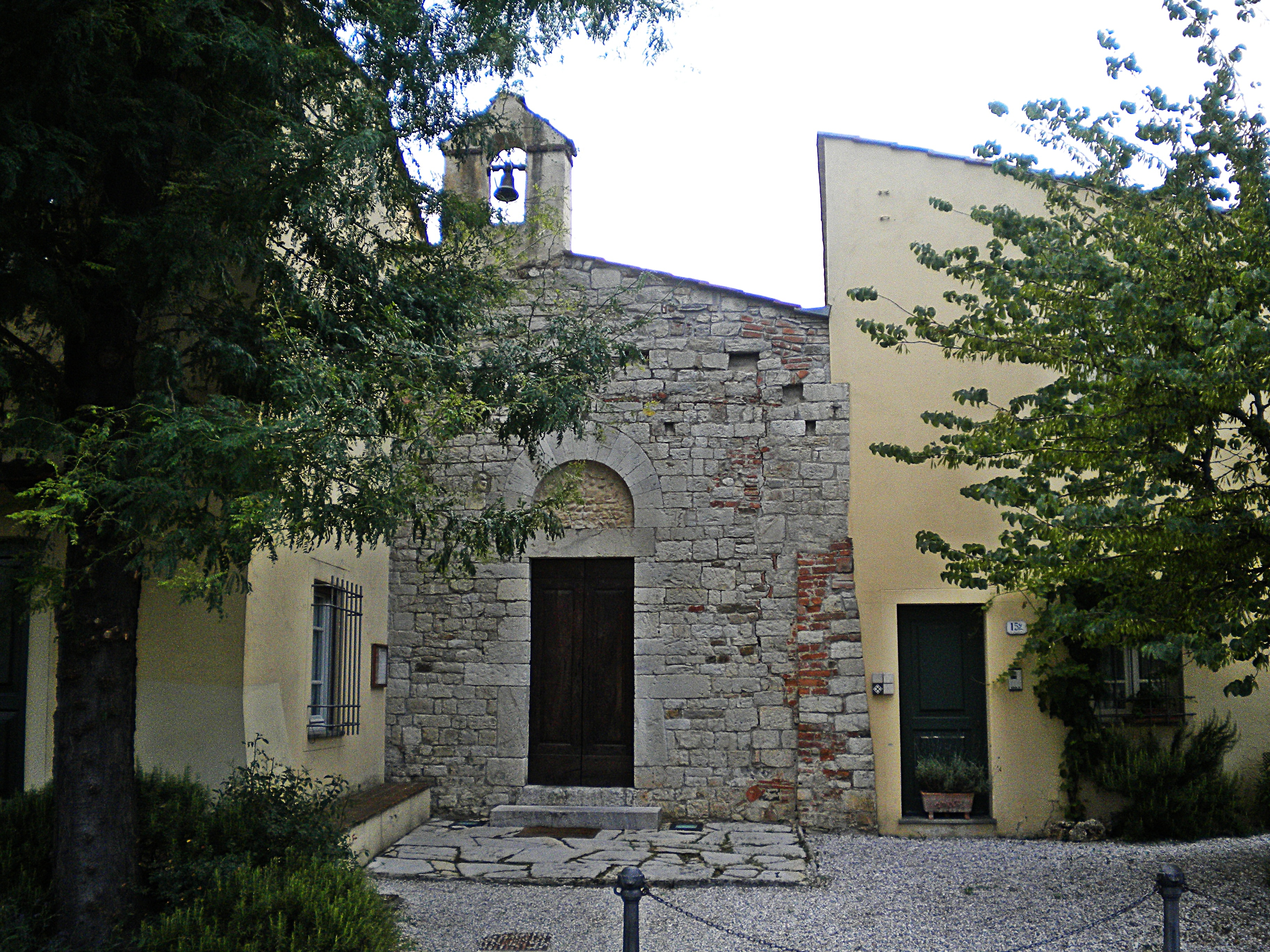 other view